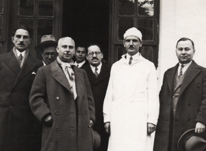 Victor Gomoiu, Secretary General in the Romanian Health Ministry (in surgeon's uniform) with the staff of the Ministry Repair Works, Bucharest. In the background, to Gomoiu's left, engineer and designer Petre Georgescu, future head of the Public Directorate for Sanitary Workshops.